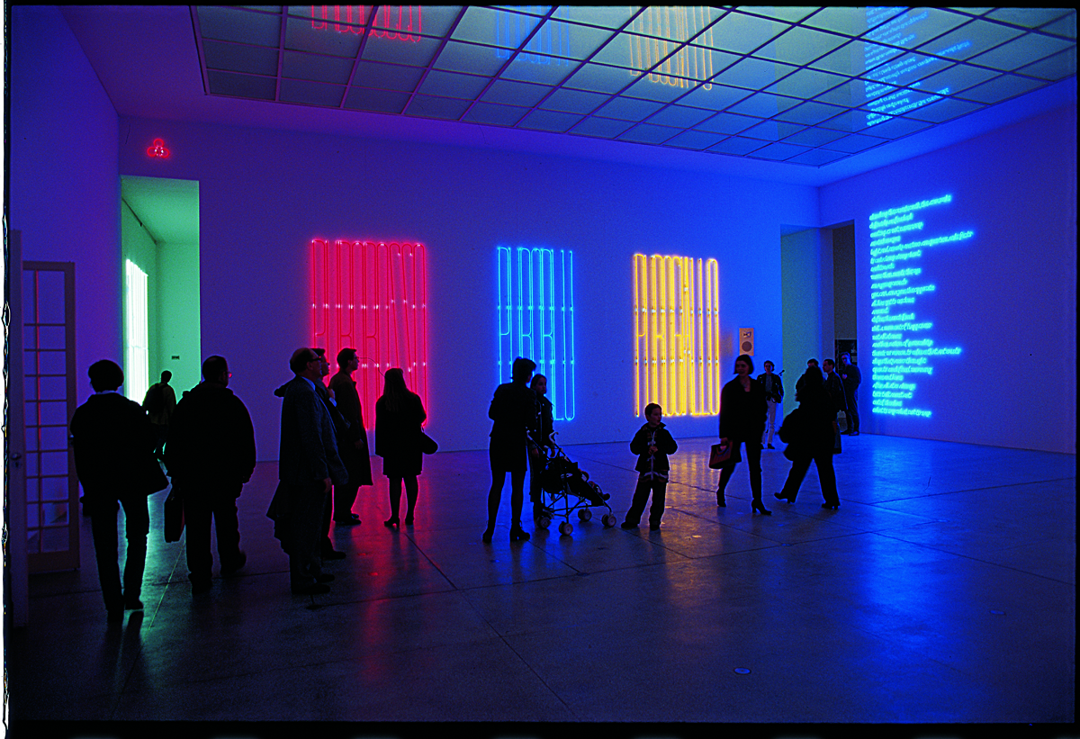 Maurizio Nannucci, Puro rosso puro giallo puro blu, 1990